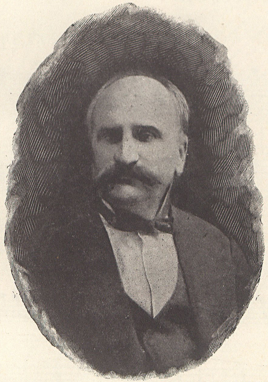 Michał Jelski - Belarusian and Polish composer, violinist and music journalist